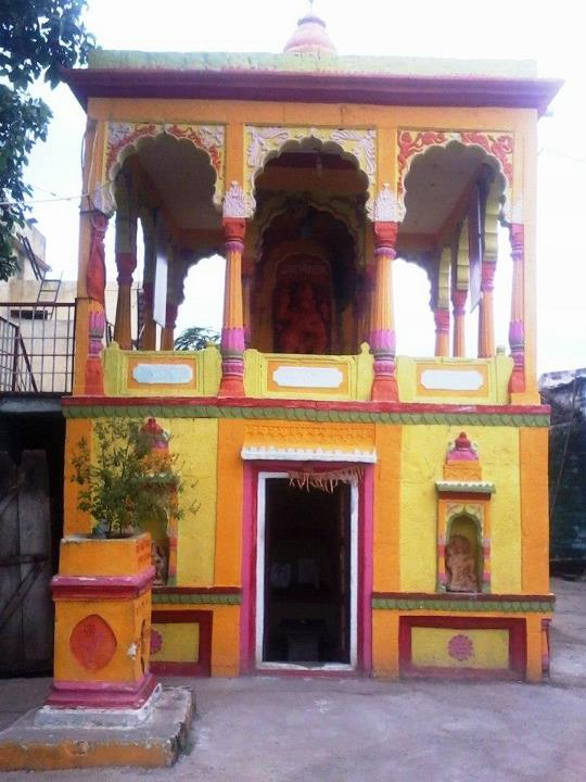 समाधी